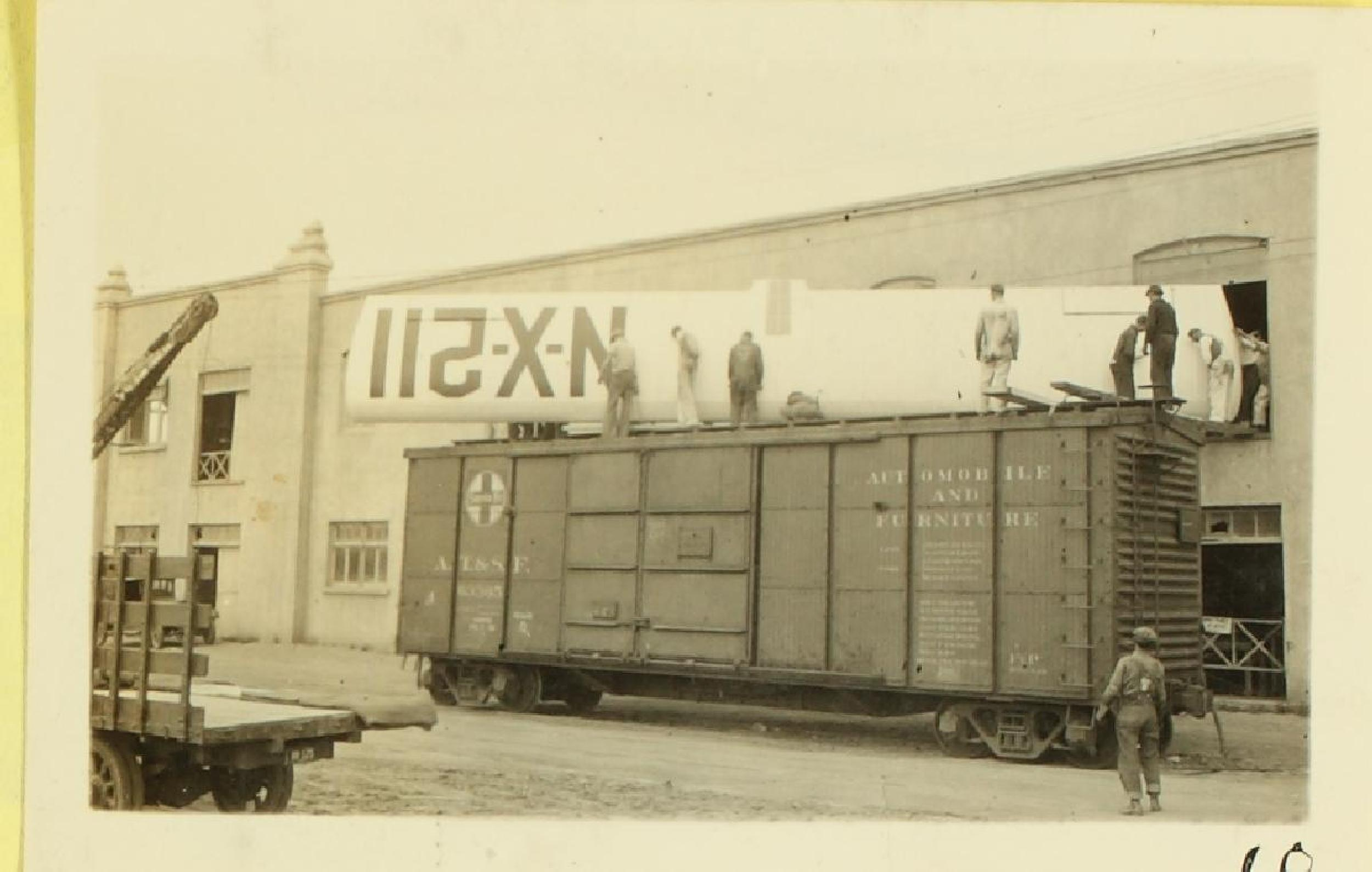 Catalog #: 04_02892 Album: 33 Description: Wing of Spirit being lifted by a crane onto boxcar. Album Name: "Spirit" Lindbergh Rohr Collection Page Number: 36 Repository: San Diego Air and Space Museum Archive